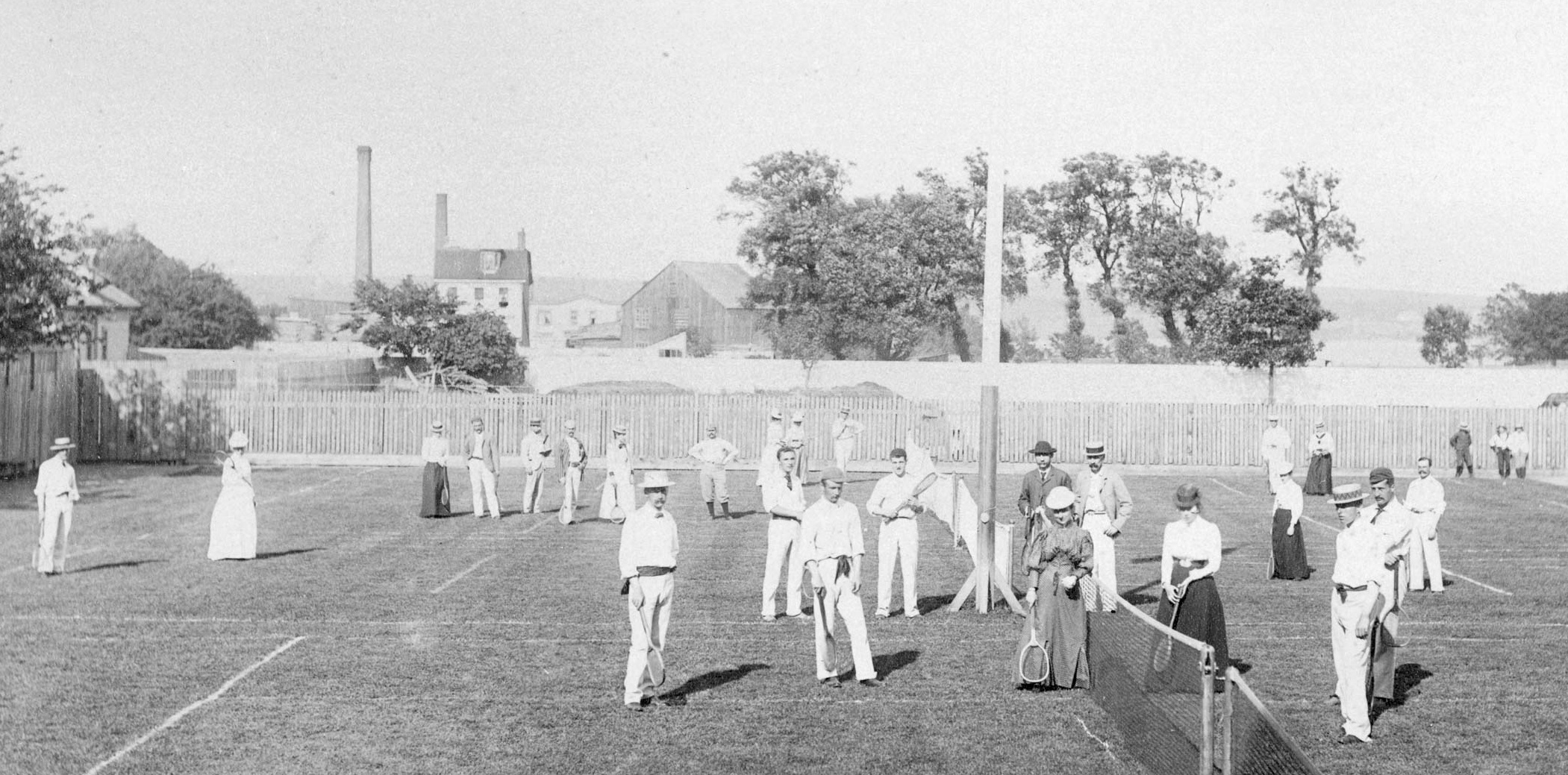 Tennis was played in Halifax as early as 1876 and the first lawn tennis court in Canada was located on the archery ground on the west side of the Public Gardens. The South End Tennis Club was formed in 1890 and is now one of the oldest such private facilities in Canada. The club originally leased a portion of the J. S. MacLean property facing on Young Avenue; this same property was later purchased and the club is still located there, over a century later.